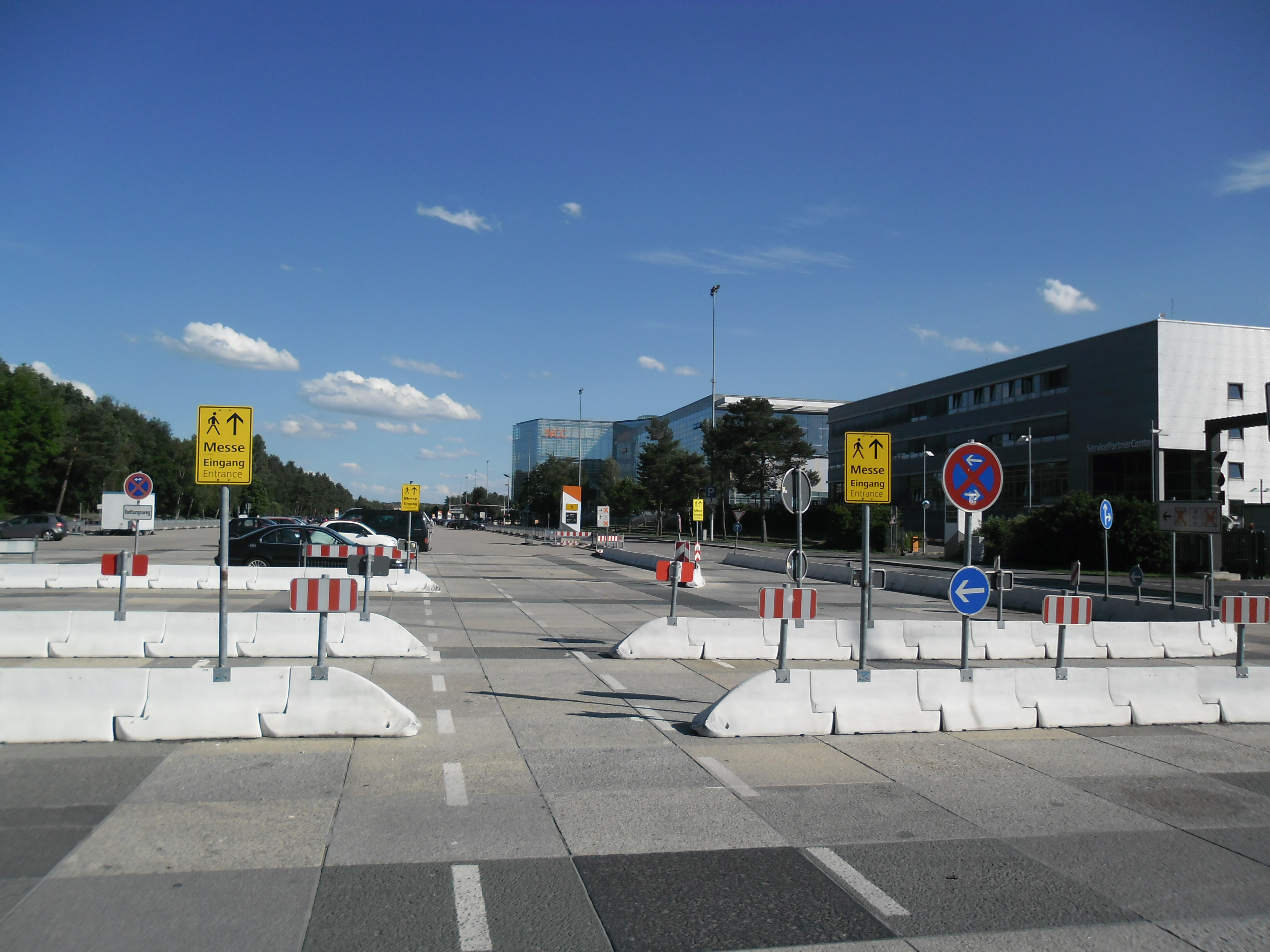 Parking lot at fair center in Nuremberg